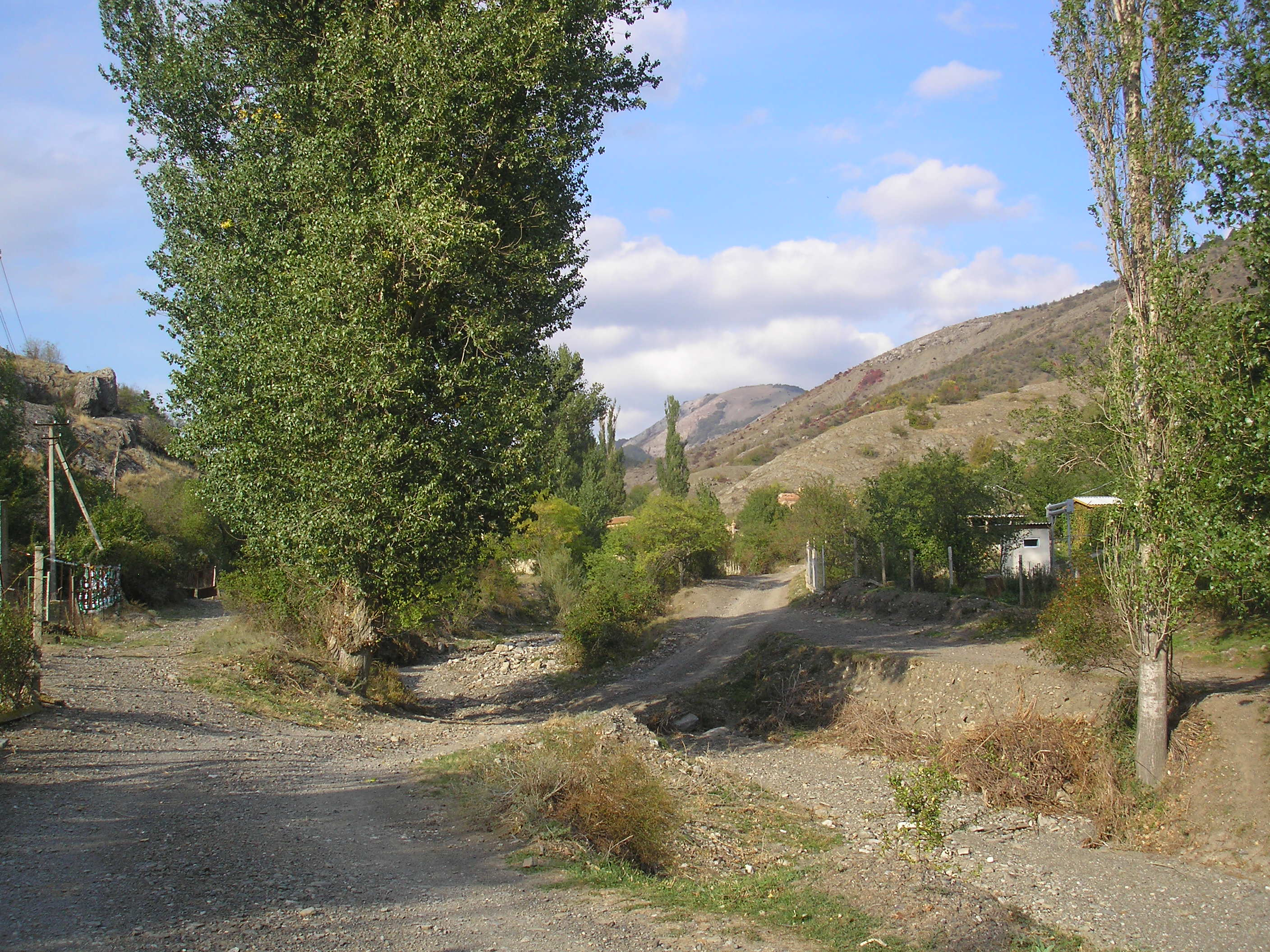 Village Voron, Urban District Sudak Republic of Crimea.